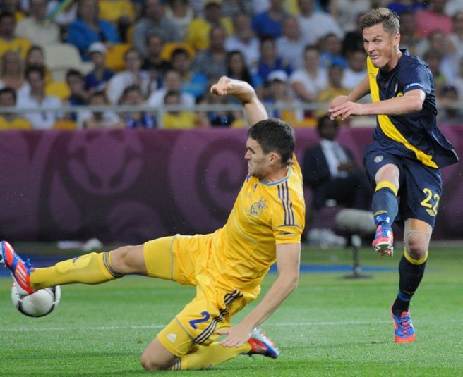 UEFA Euro 2012 match between Ukraine and Sweden that took place in Kiev. Final result was 2:1 (2xShevchenko - Ibrahimović)